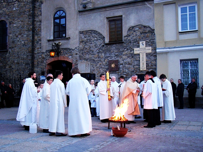 Easter Fire, Sanok